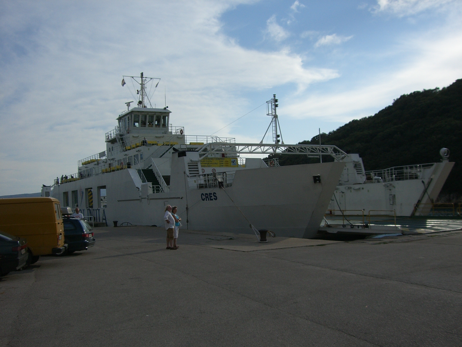 Ferry to Cres from Krk.